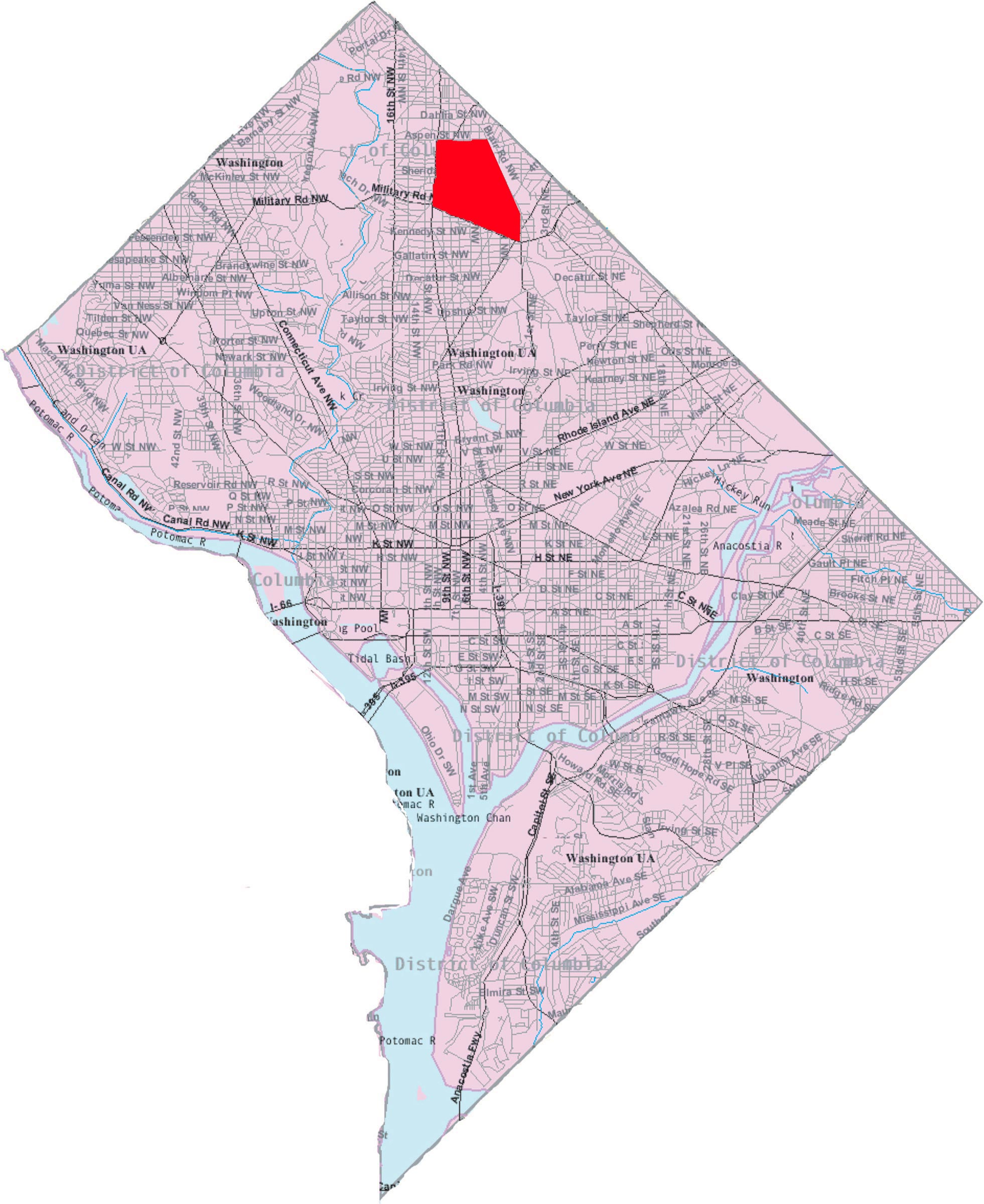 This image is a modified version of a self-generated reference map from the U.S. Census Bureau's American Factfinder at by Wikipedia user Msclguru.